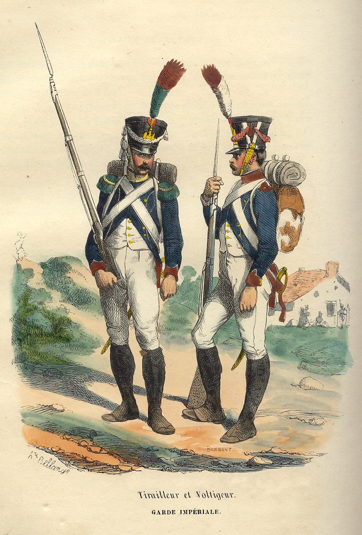 Tirailleur and Voltigeur from the Imperial Guard of the Grande Armée. From book of P.-M. Laurent de L`Ardeche «Histoire de Napoleon», 1843